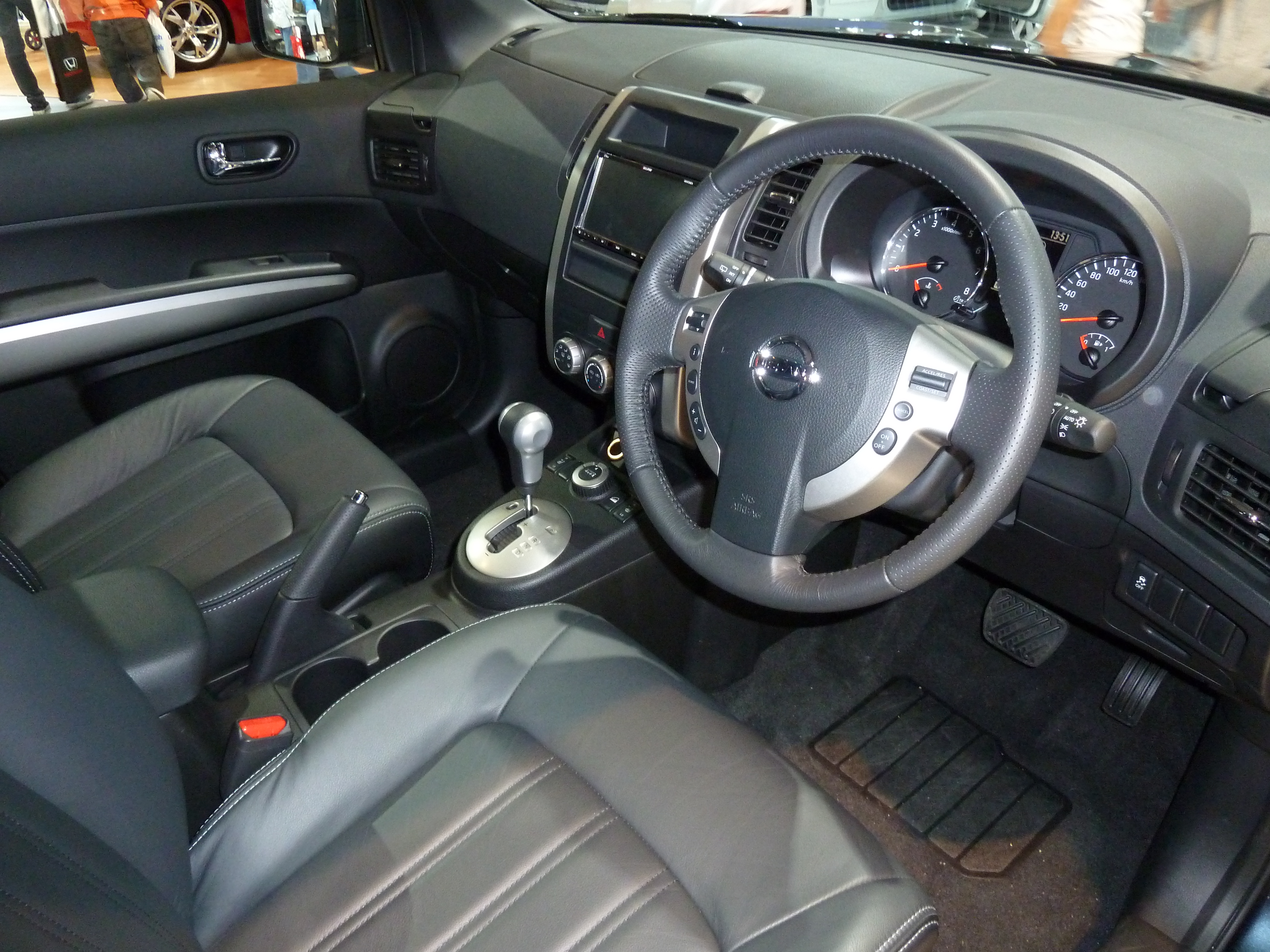 2010 Nissan X-Trail (T31) Ti wagon. Photographed at the 2010 Australian International Motor Show, Sydney, New South Wales, Australia.